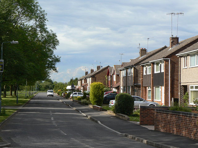 The Downs, Silverdale Looking north towards Brookthorpe Way.